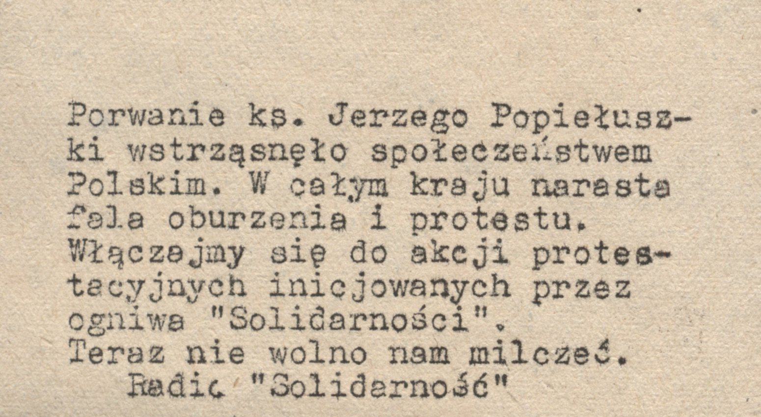 A flyer informing about date and hour of Radio Solidarity broadcast - back side.